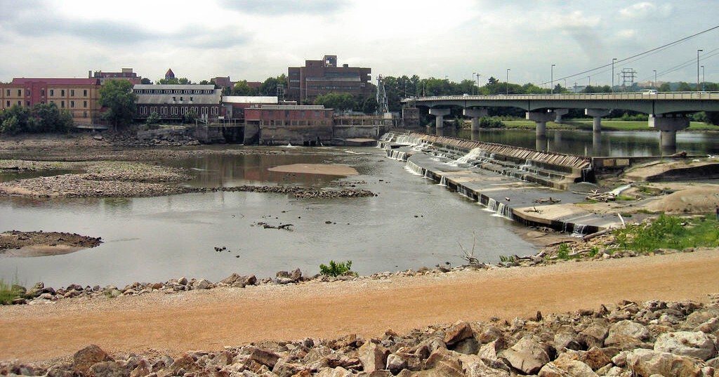 The Kansas River in downtown Lawrence, Kansas